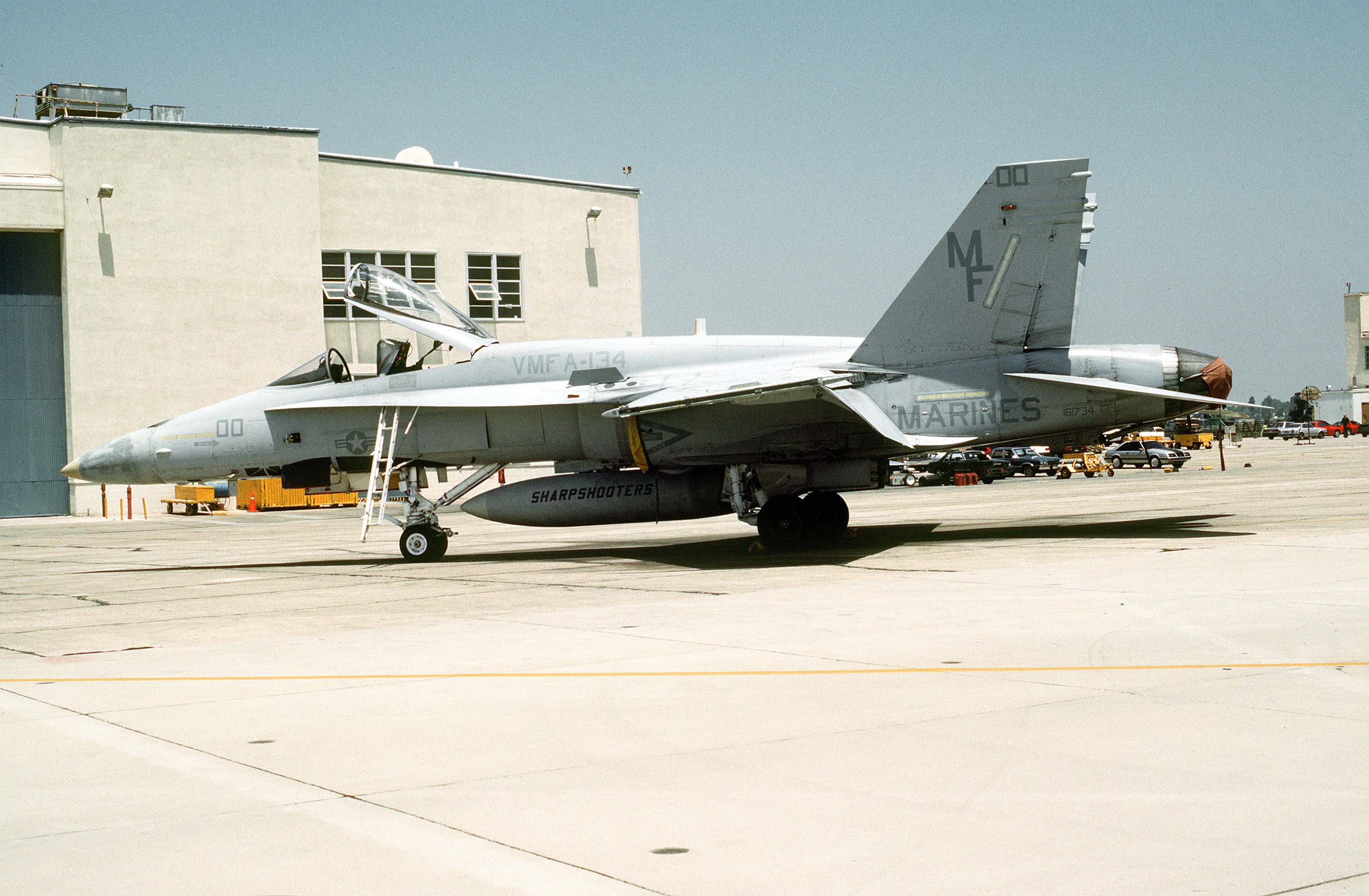 A McDonnell Douglas F/A-18A Hornet fighter (BuNo 161734) of U.S. Marine Corps fighter-bomber squadron VMFA-134 stands on the flight line at Marine Corps Air Station El Toro, California (USA), on 17 June 1993.